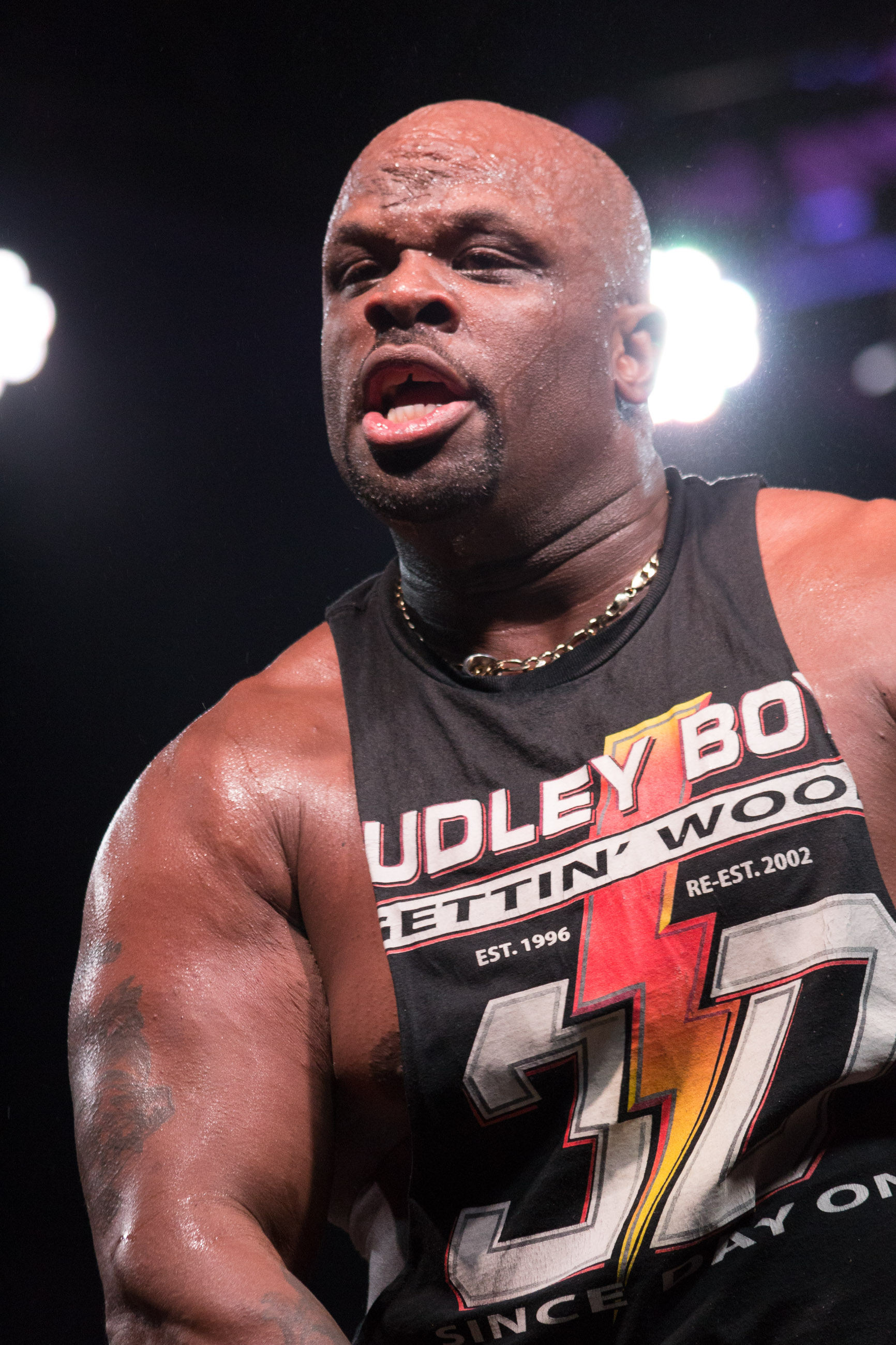 Devon of Team 3-D posing post match at House of Hardcore 9 in Toronto, ON